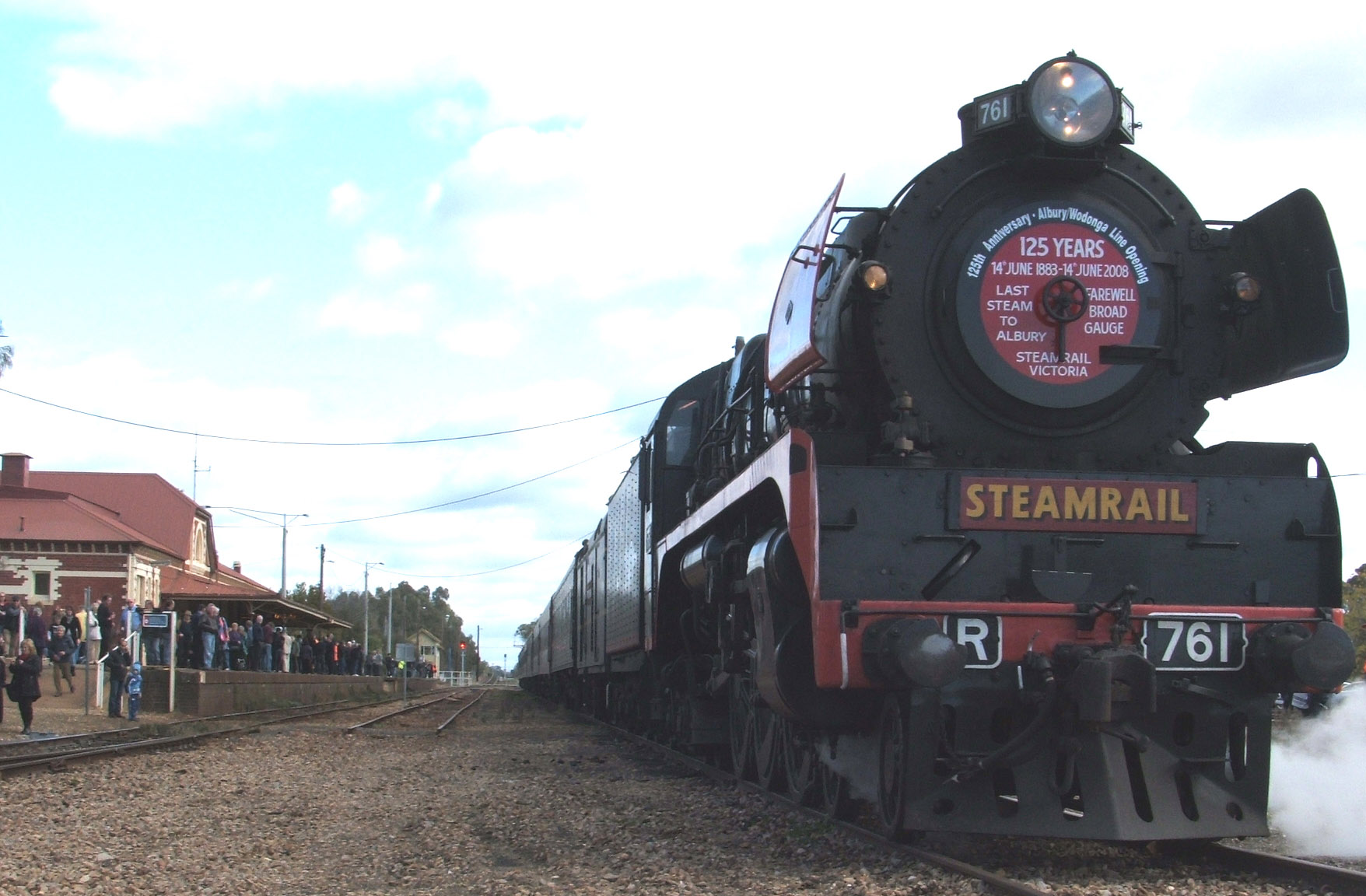 With the Victorian Government announcing the imminent closure of the Albury-Wodonga line for conversion to standard gauge, Steamrail Victoria operated a "Last Steam to Albury" special service on 2008-06-14